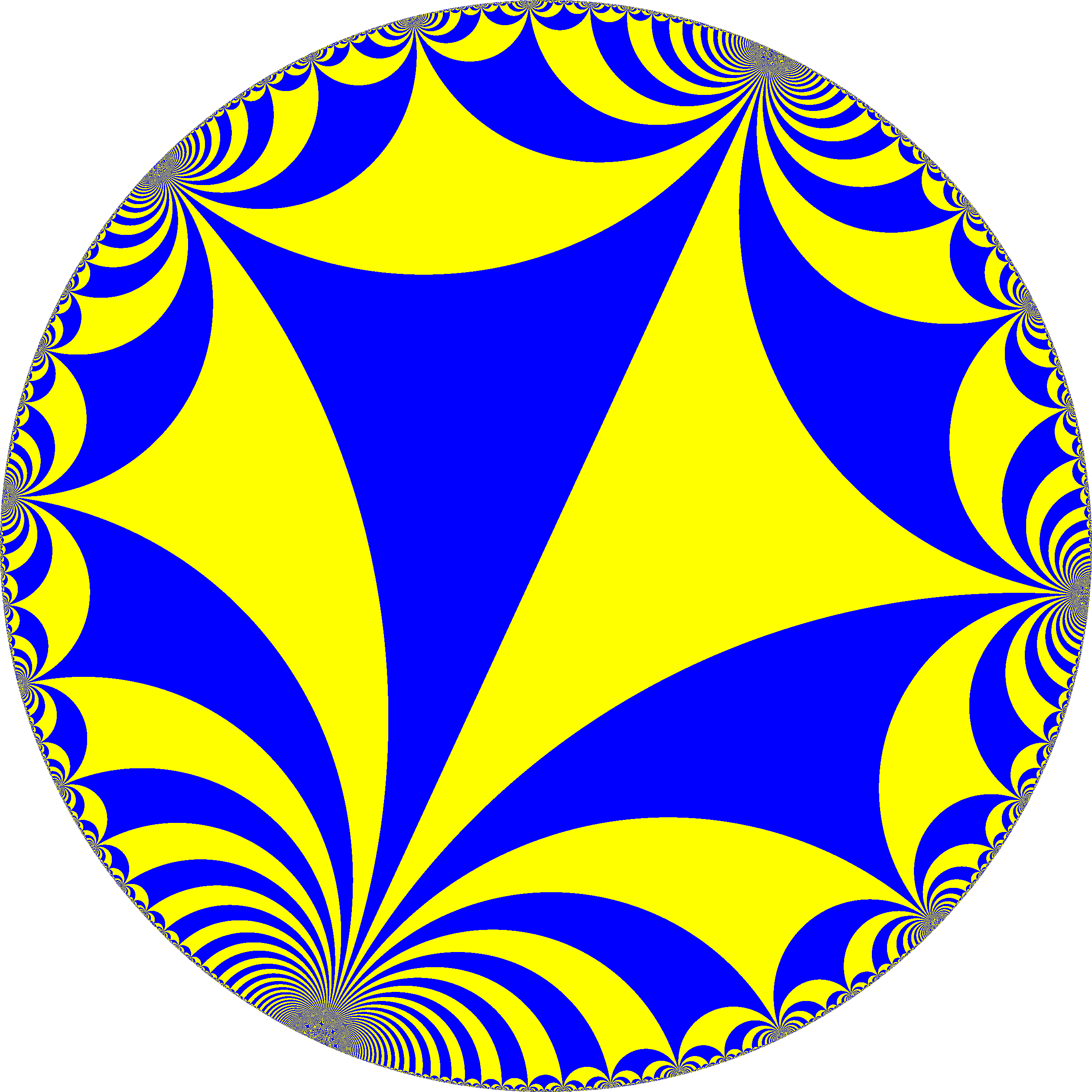 Regular tiling of hyperbolic plane, 3x3o∞o. These are the biggest finite triangles. Generated by Python code at User:Tamfang/programs. Equivalent: Dual